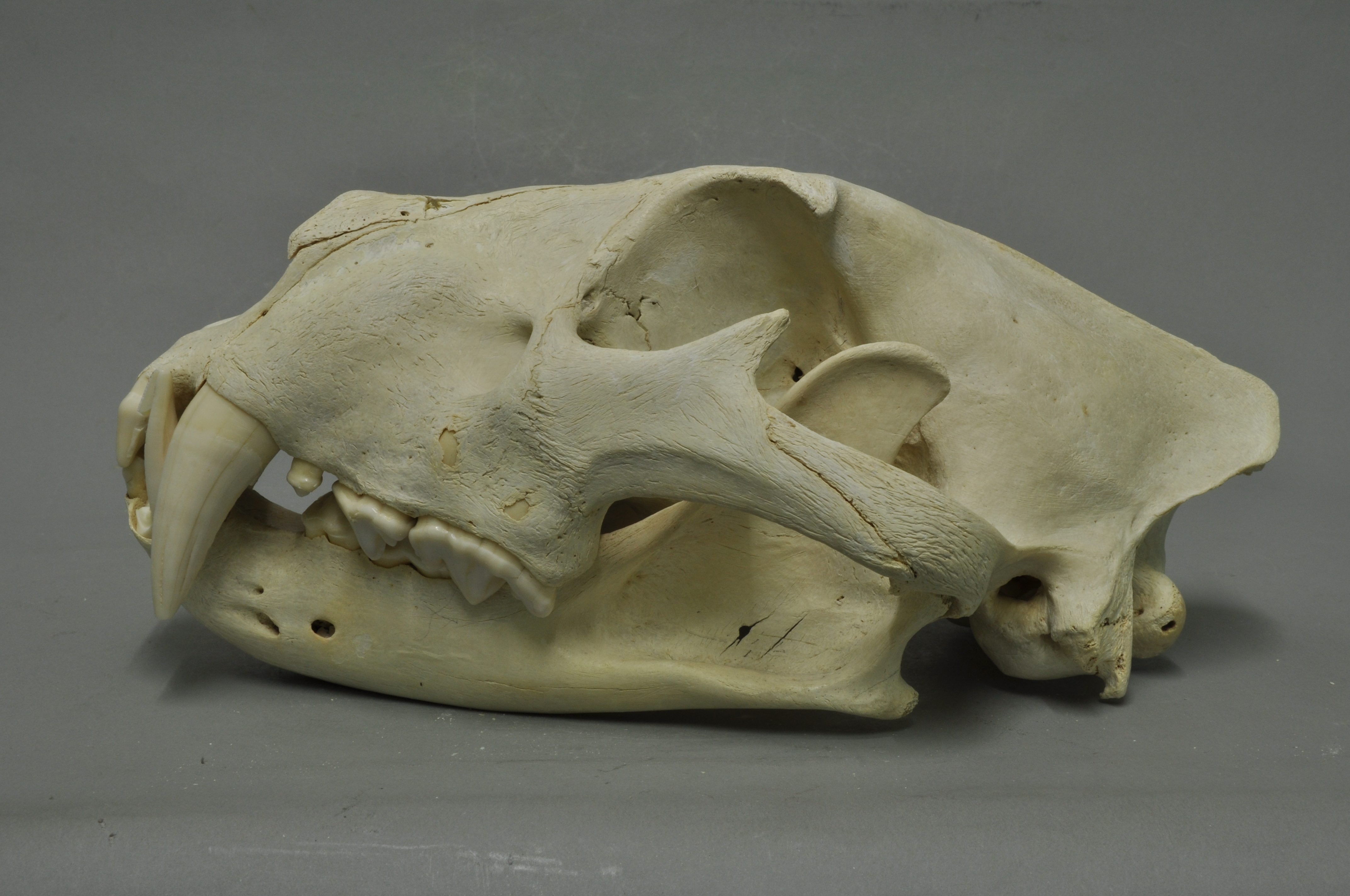 Lion Panthera leo, skull, Coll. Museum Wiesbaden